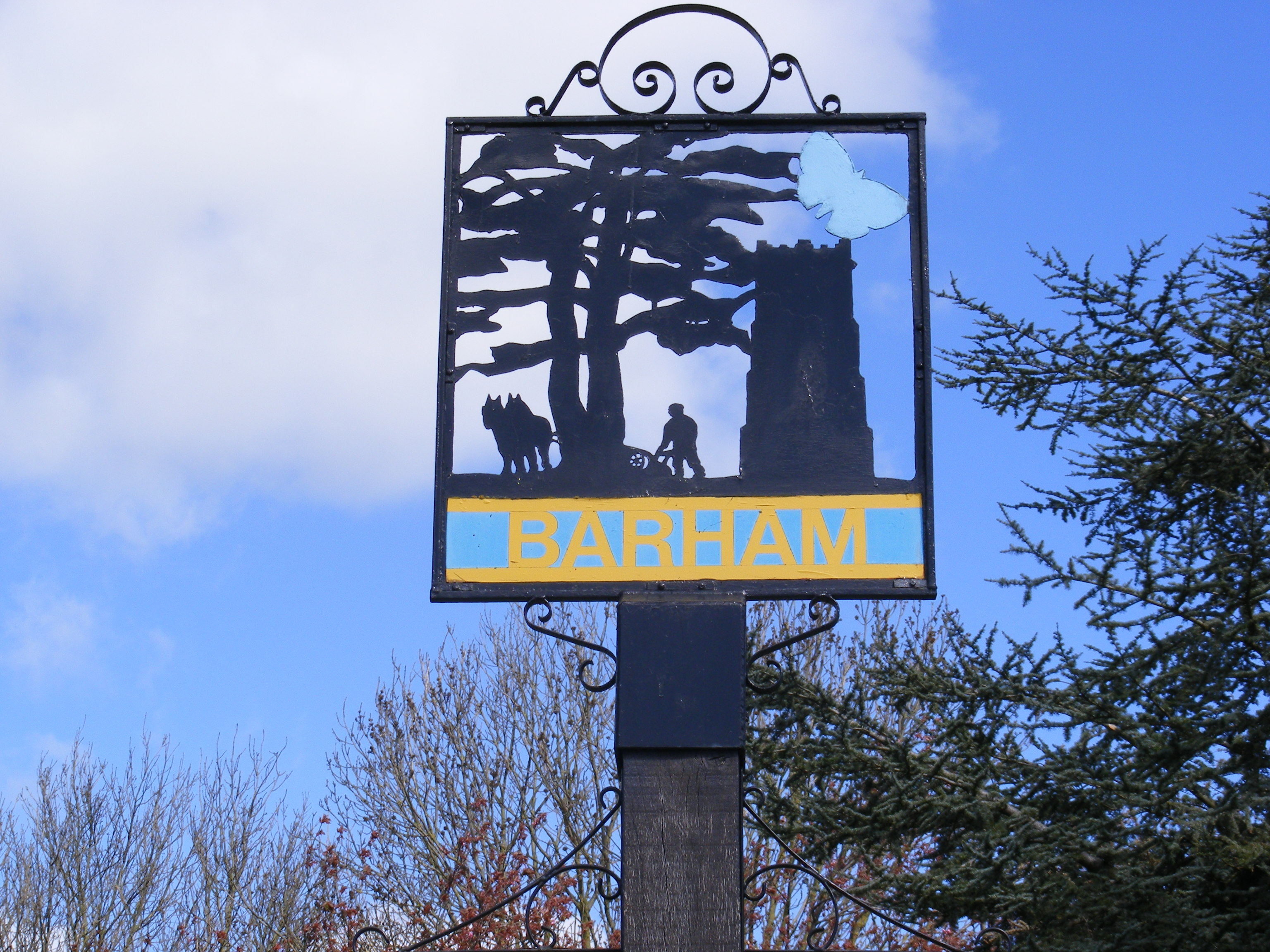 Barham Village Sign (close up)